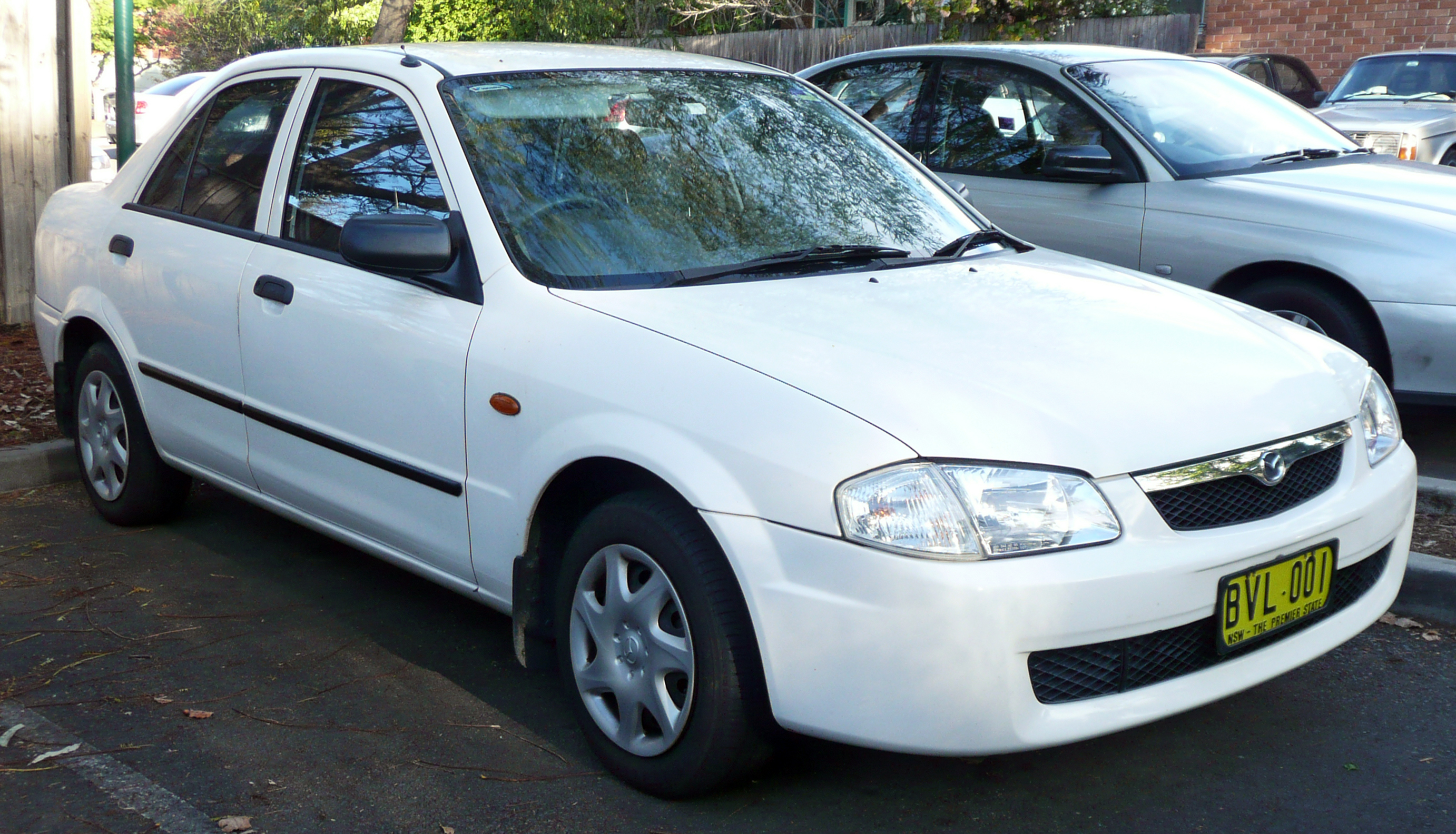 1999 Mazda 323 (BJ) Protegé sedan. Photographed in Sutherland, New South Wales, Australia.